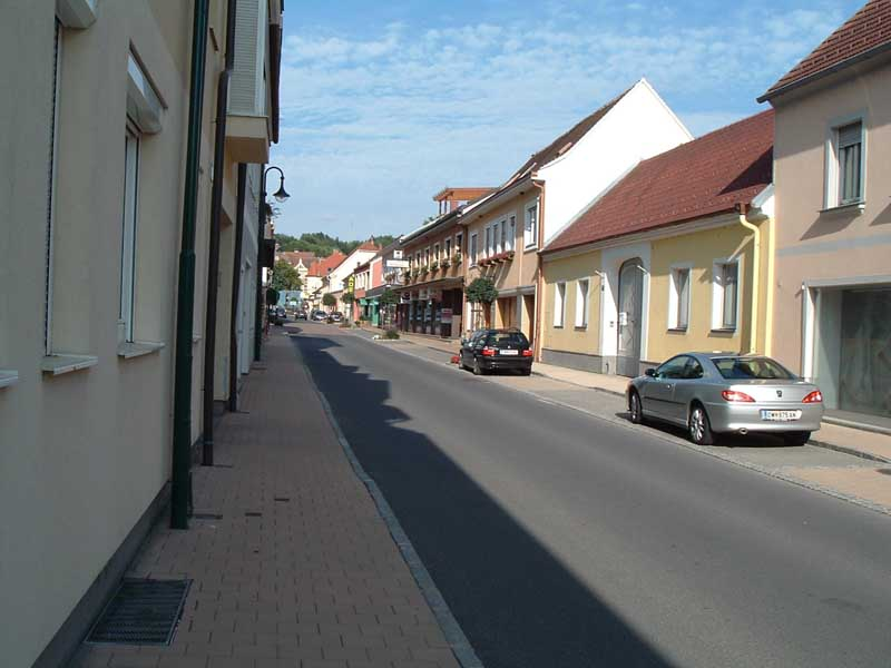 Street in Pinkafeld, Burgenland, Austria